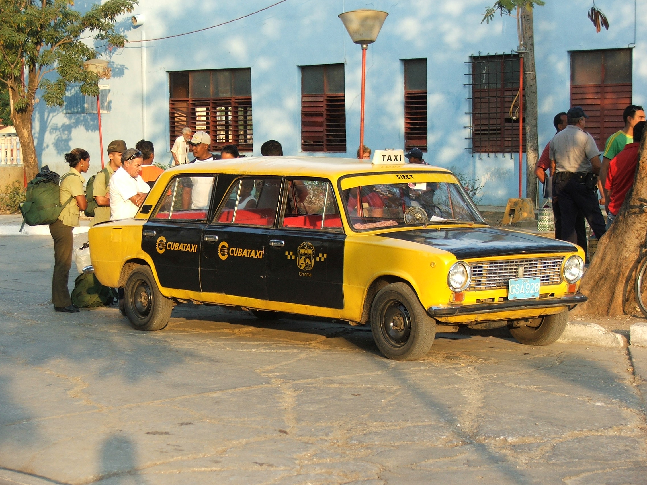 Cuban taxi (long custom made version of Lada).